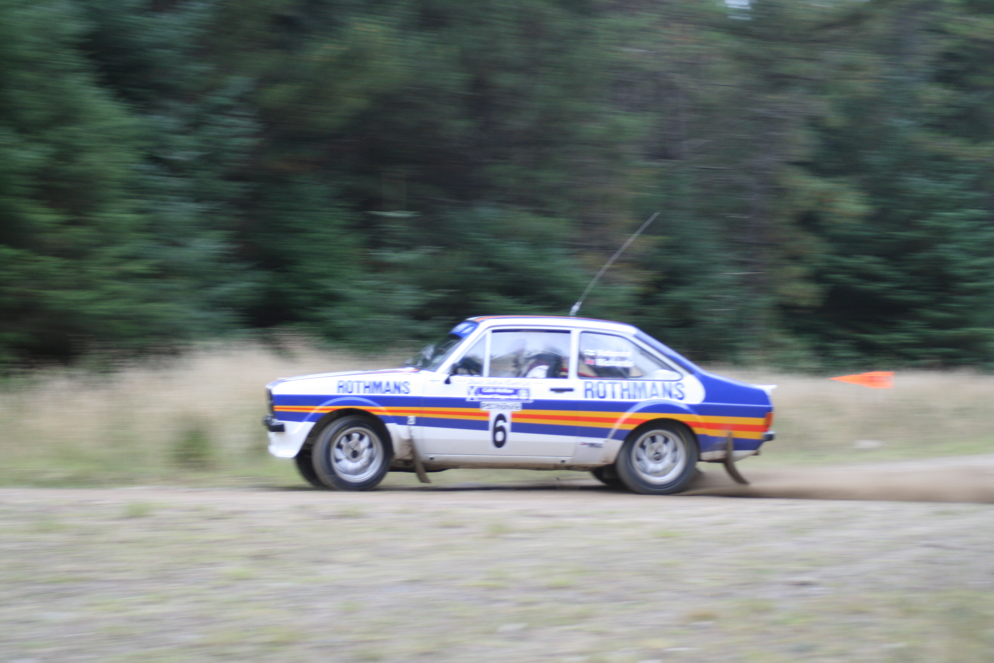 Ari Vatanen and co-driver David Richards driving a Ford Escort Mk2 at the 2008 Colin McRae Forest Stages Rally.